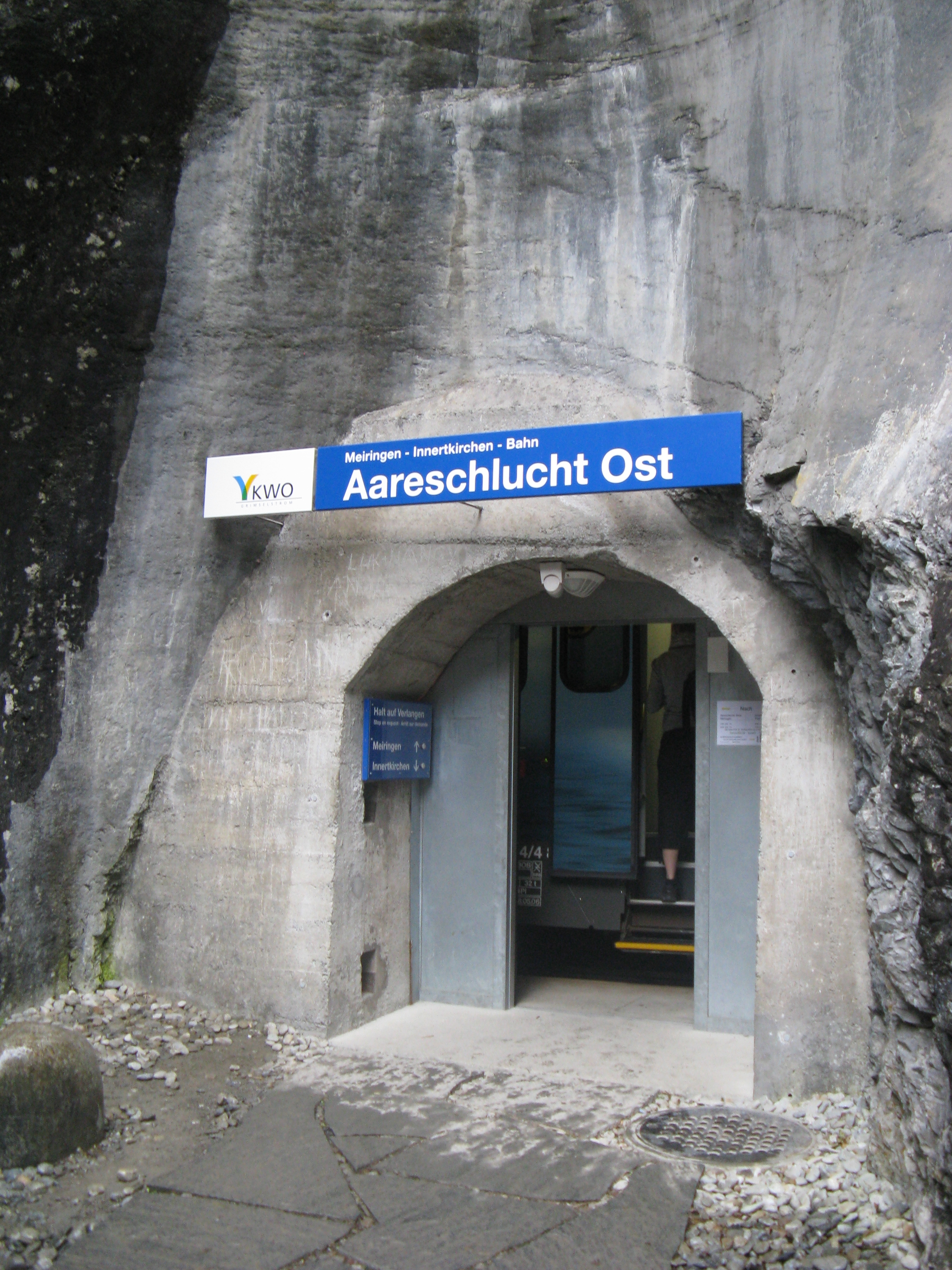 Aareschlucht Ost railway station, situated in a tunnel of the Meiringen–Innertkirchen railway which belongs to Kraftwerke Oberhasli (Bernese Oberland, Switzerland)